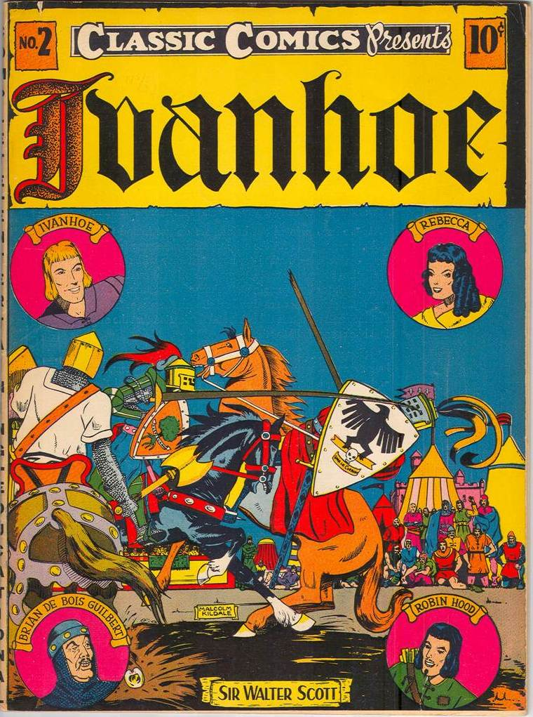 Cover scan of a Classics Comics book